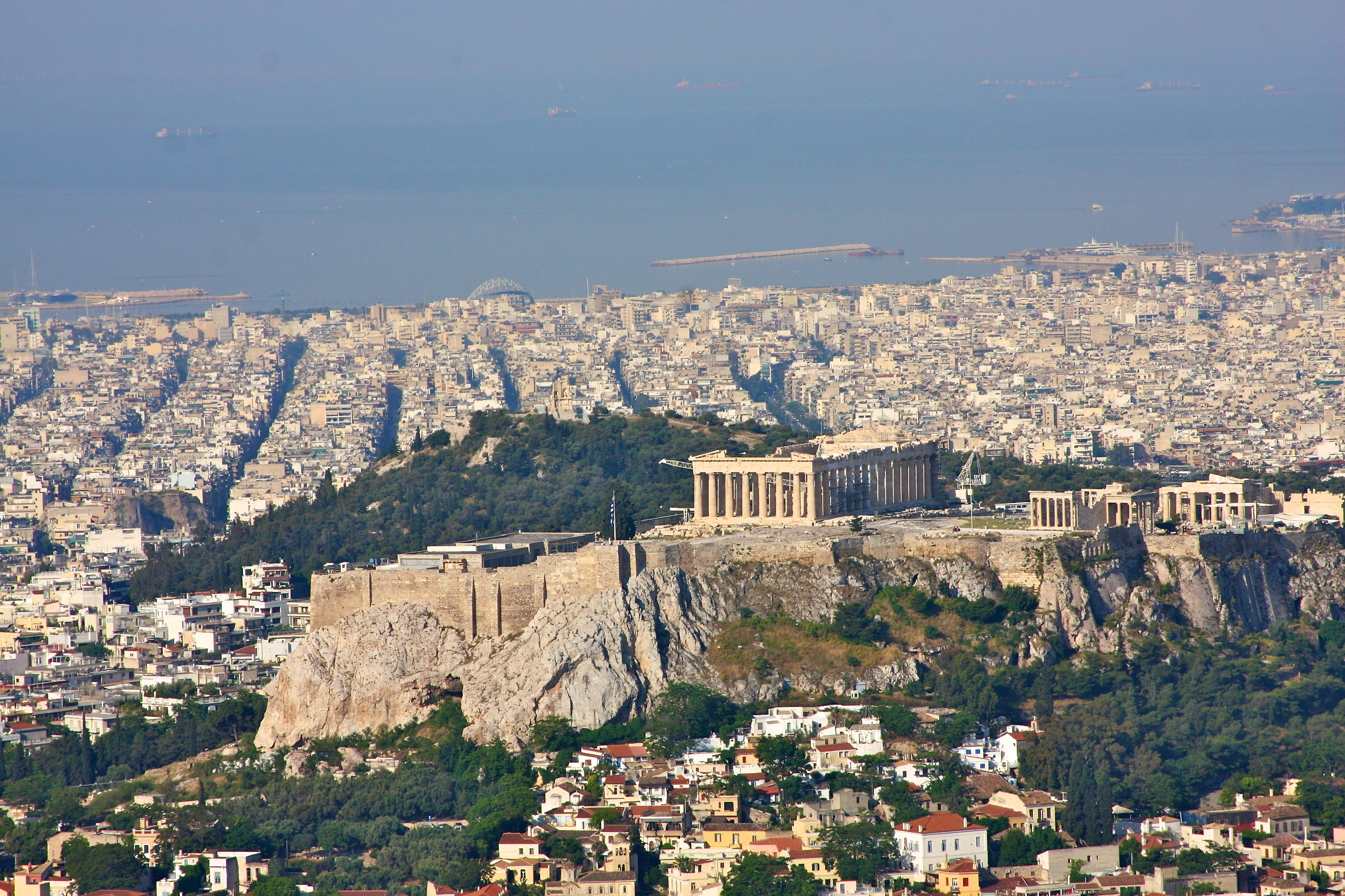 Acropolis Athens Greece as seen from Exarchion